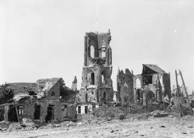 The ruined church of Villers-Bretonneux after the second battle that took place in the village, in World War I